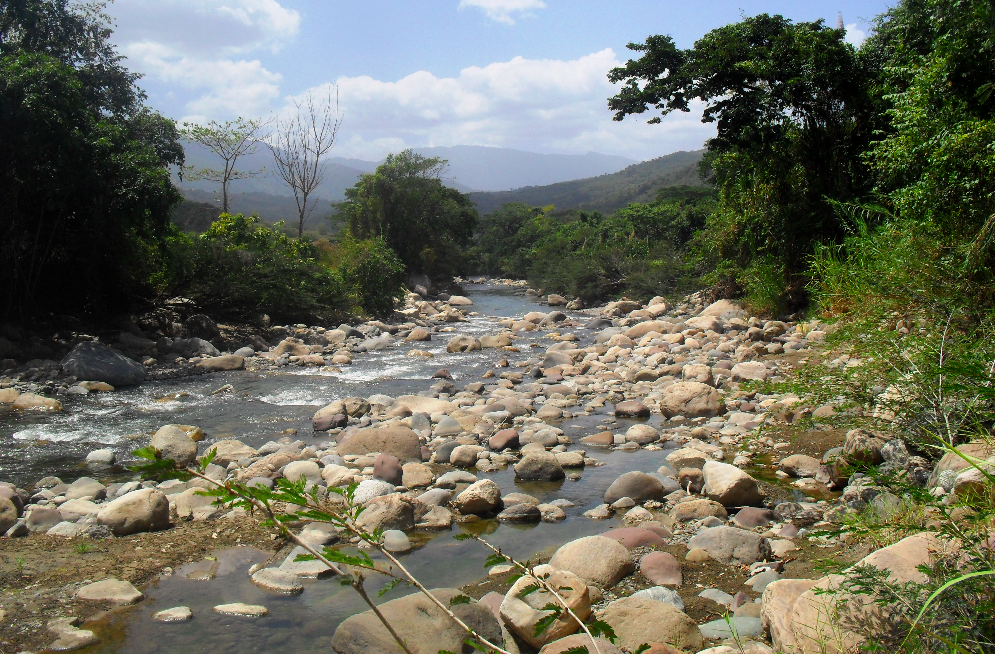 Peralonso river at El Zulia-Santiago road, Colombia.